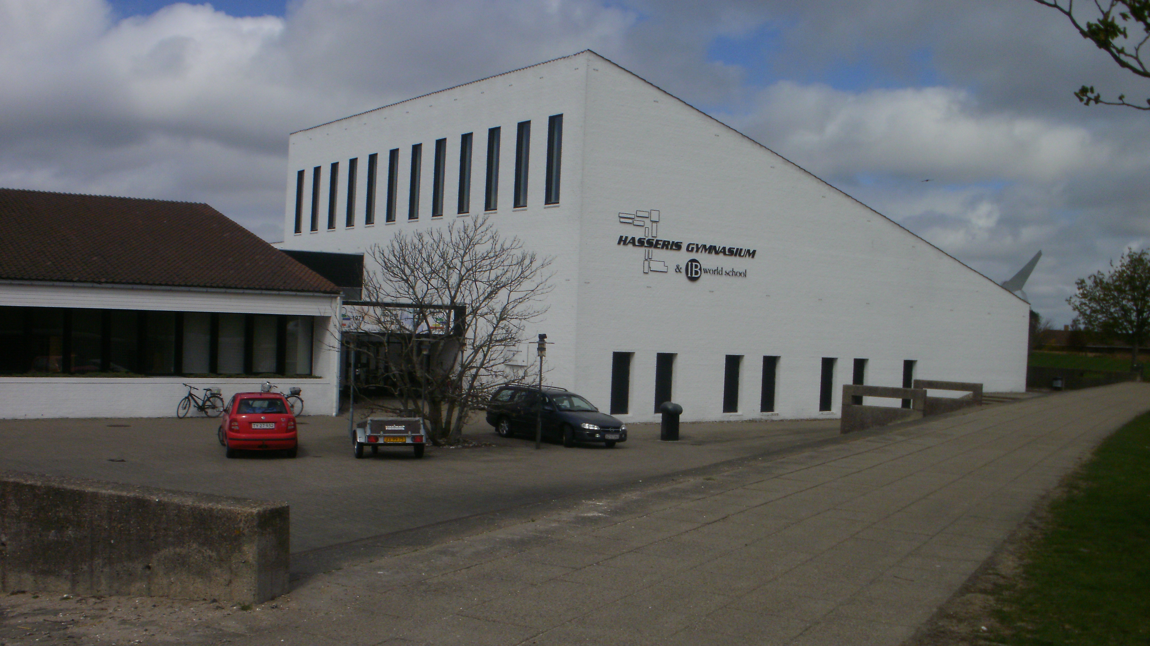 Hasseris Gymnasium & IB World School, Aalborg , Denmark